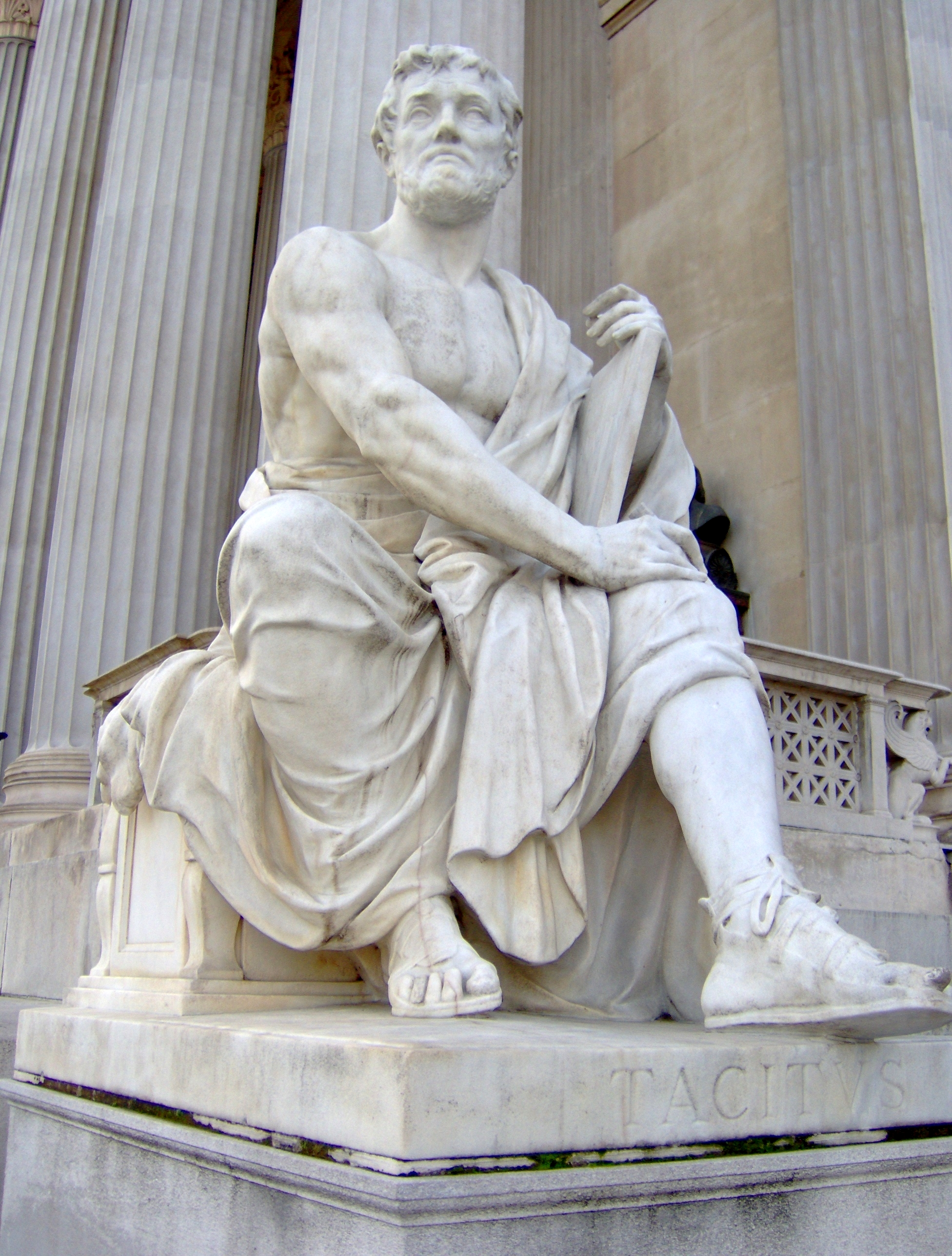 Austria, Vienna, Austrian Parliament Building